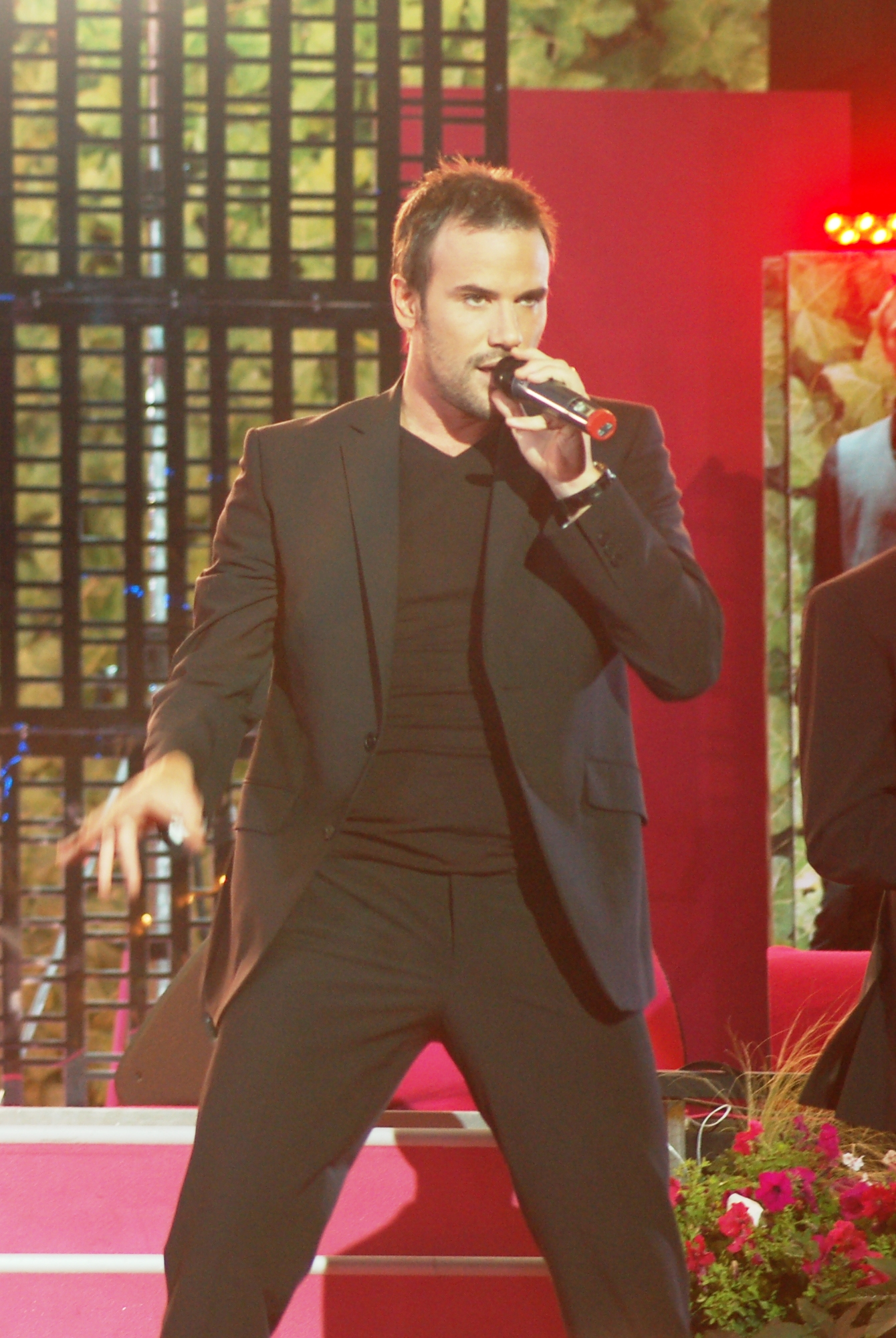 Martin Stenmarck at Gröna Lund, Sommarkrysset